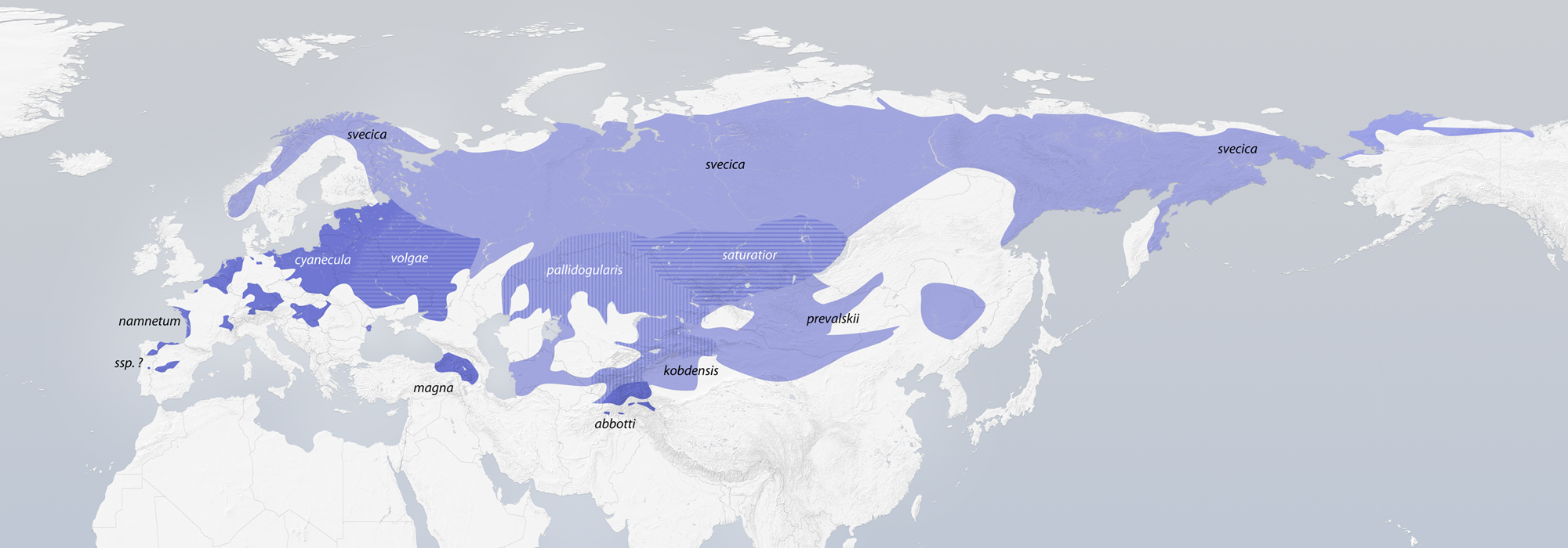 Distribution and subspecies of Luscinia svevica